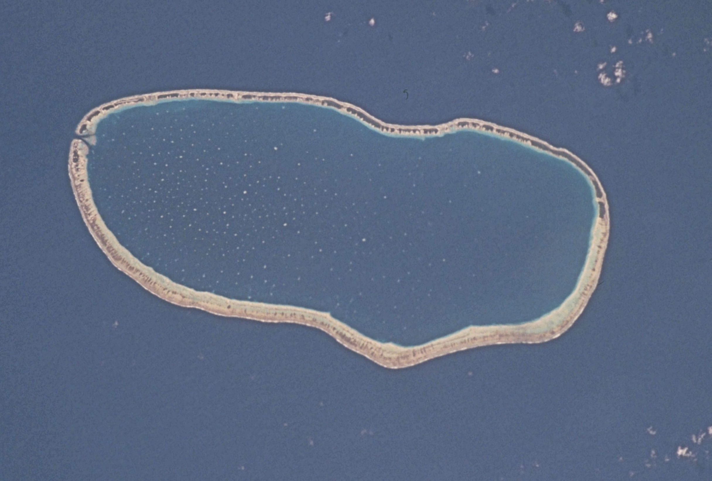 Faaite Atoll, Tuamotu Archipelago, French Polynesia